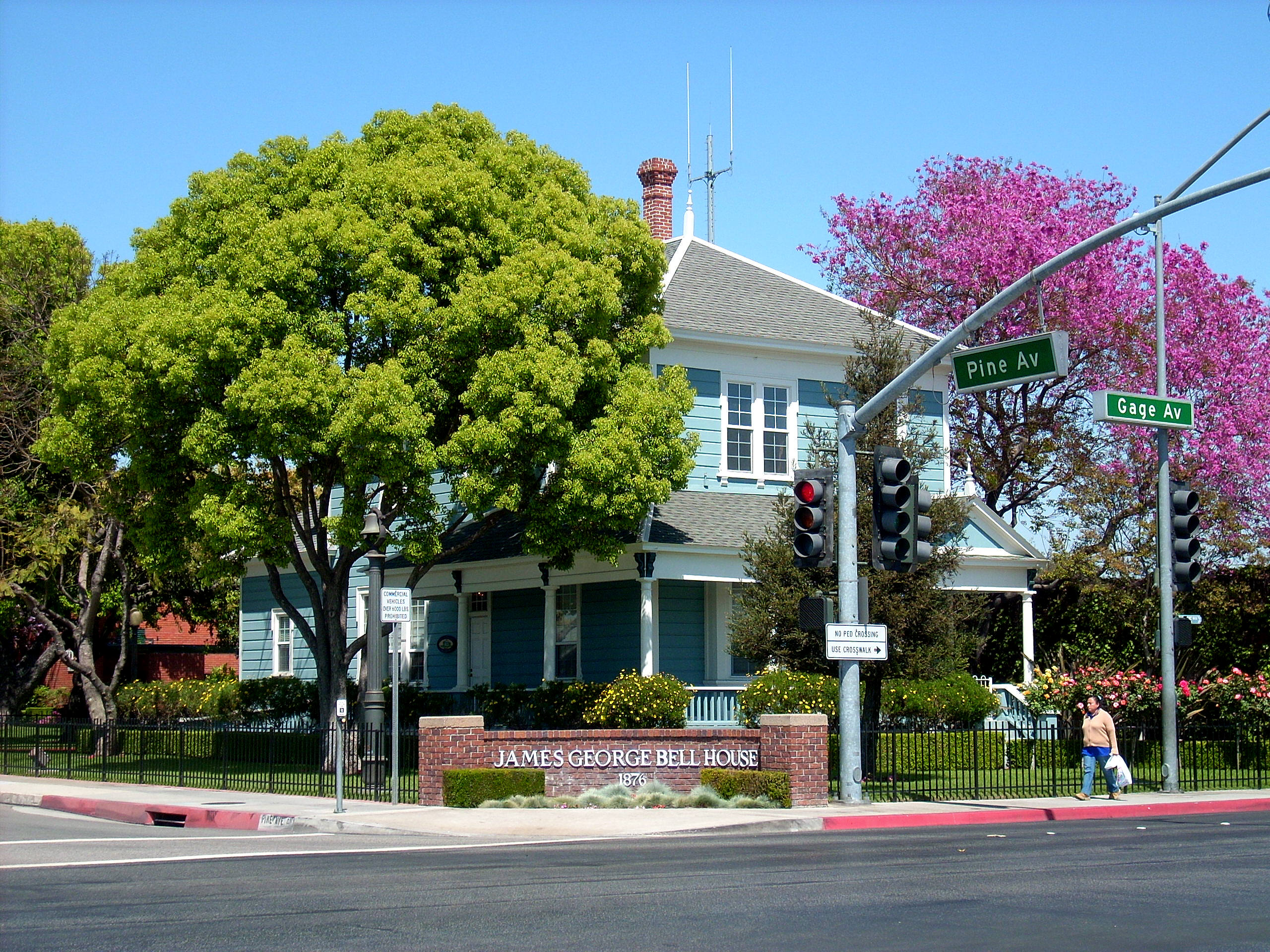 Picture Taken on Gage Ave @ Pine Ave